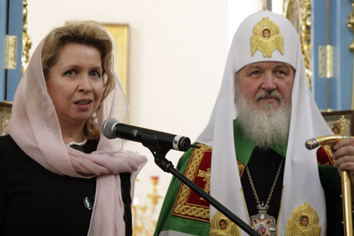 Patriarch Kirill and Svetlana Medvedeva at the ceremony of consecration of the new church in Sestroreck